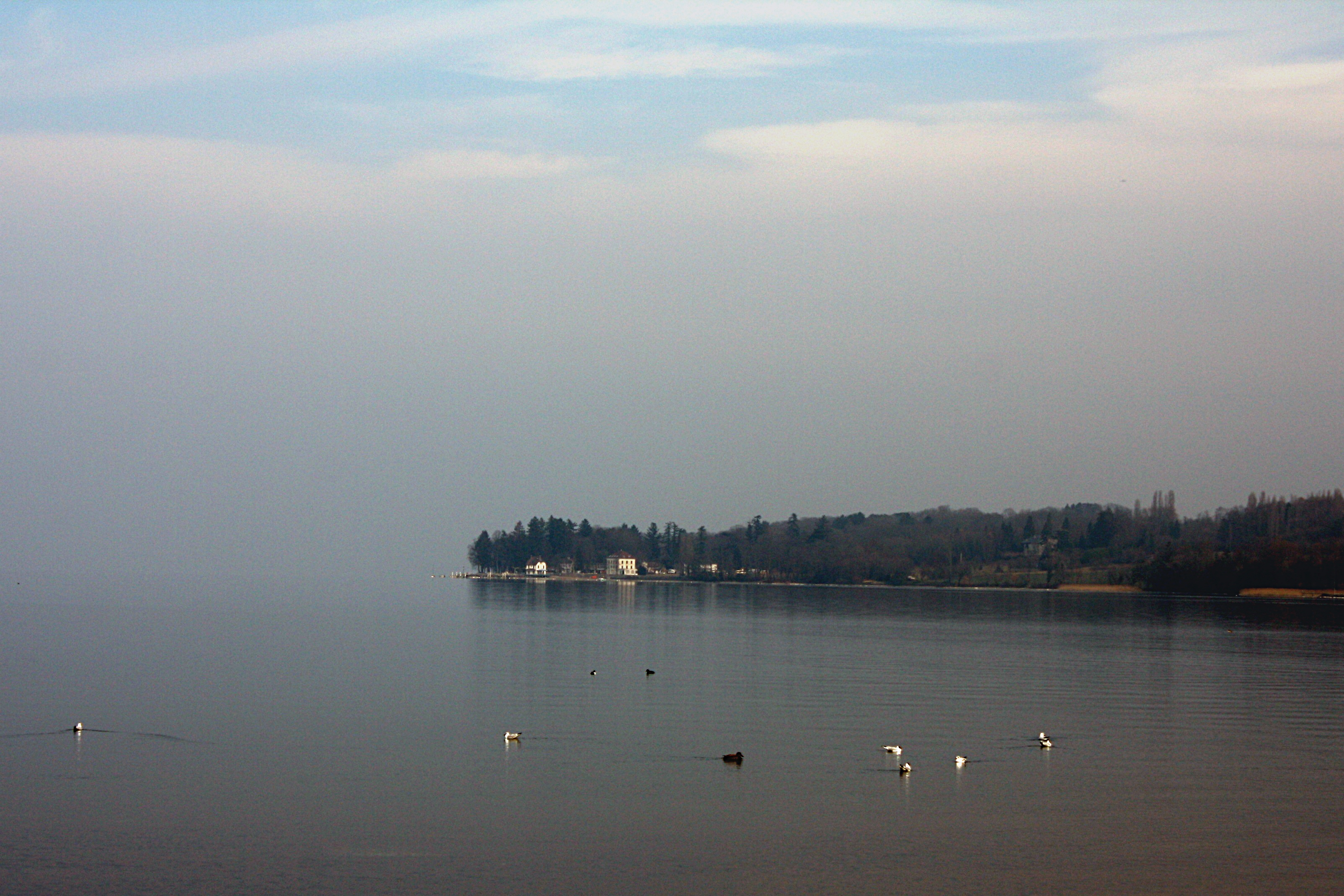 Hermance, a little village at outskirts of Geneva.